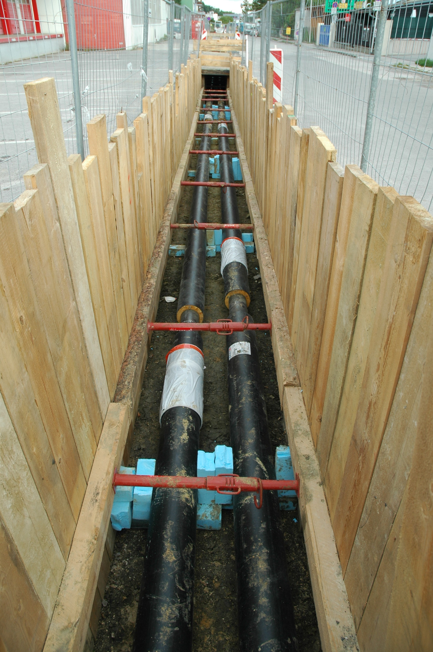 construction site of a district heating installation DN150, made of preinsulated bonded pipe systems before joints are applied, in Austria